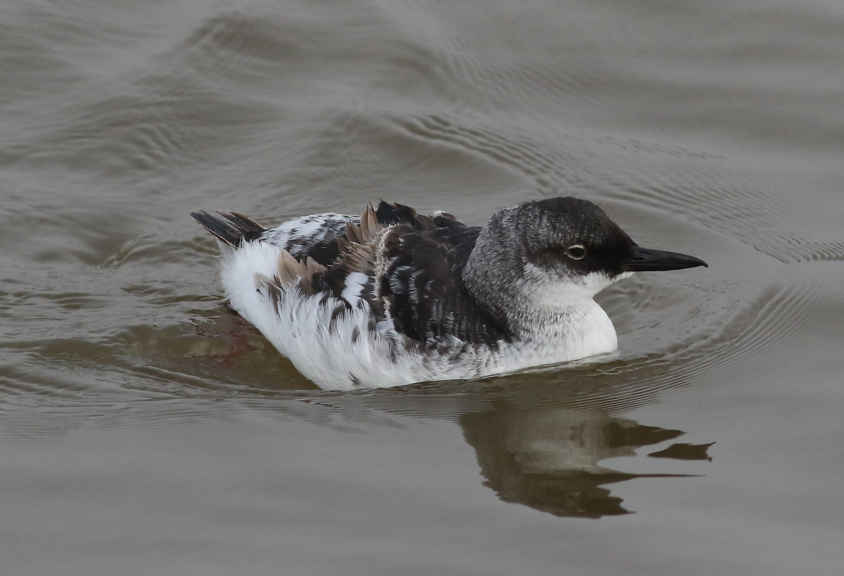 Note the red legs